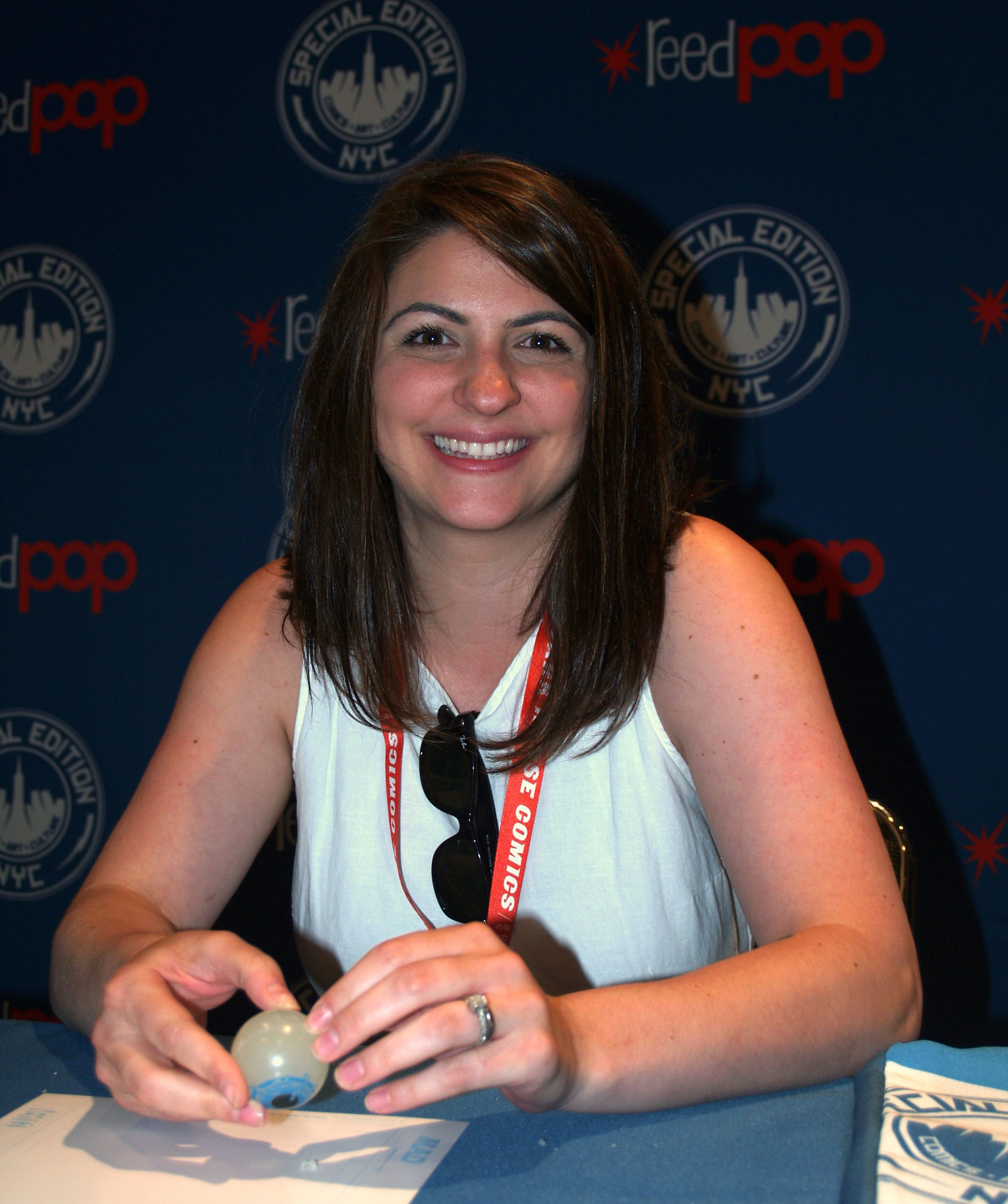 Comics editor Katie Kubert at the Marvel: Next Big Thing panel on Saturday, June 14, 2014, Day 1 of Special Edition NYC, a comic book convention at the Jacob K. Javits Convention Center in Manhattan. This photo was created by Luigi Novi. It is not in the public domain, and use of this file outside of the licensing terms is a copyright violation.